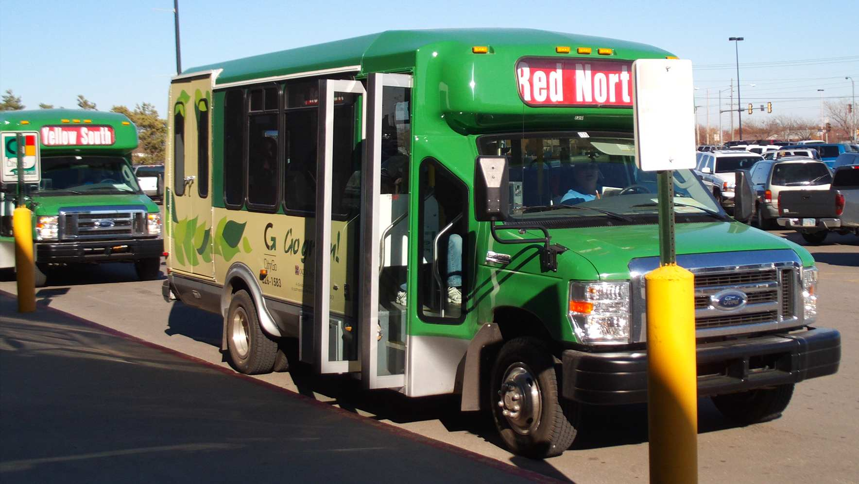 CityGo buses parked for passengers outside Walmart in Salina, Kansas.